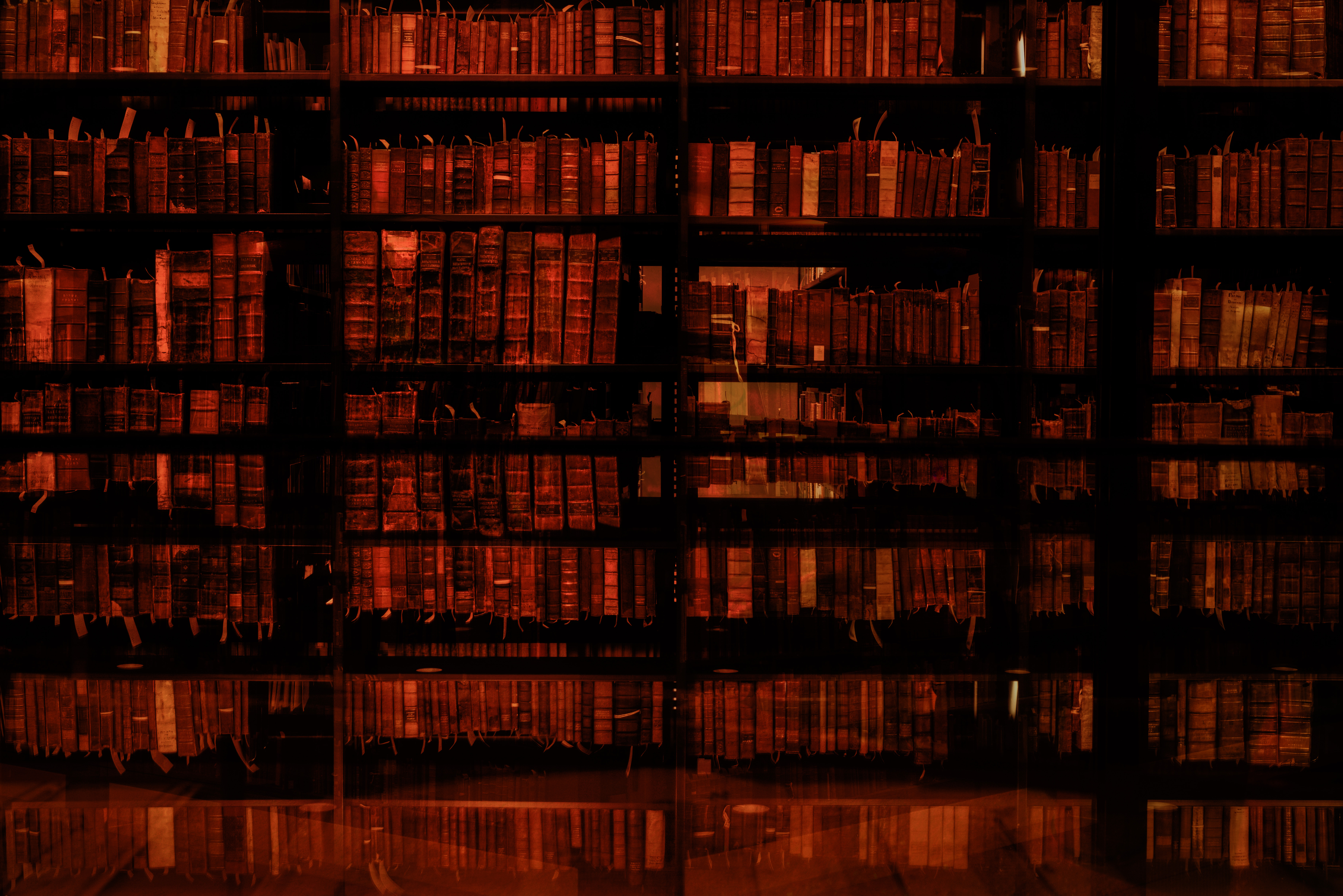 Beinecke Rare Book & Manuscript Library book shelf.